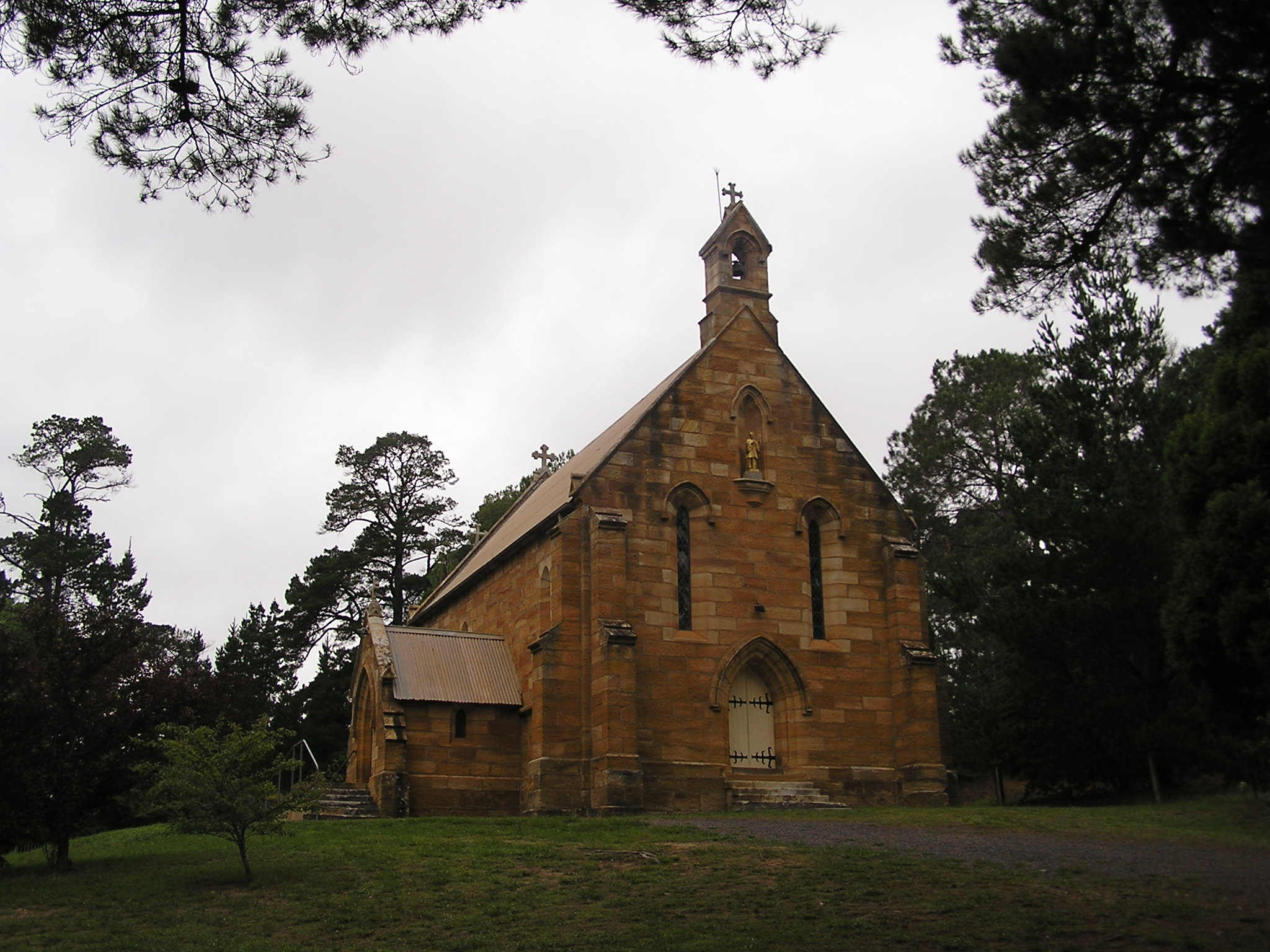 Berrima, New South Wales, Australia - St Francis Xavier's Church designed by Augustus Pugin. Foundation stone laid 1849, opened 1851. Picture taken by AYArktos